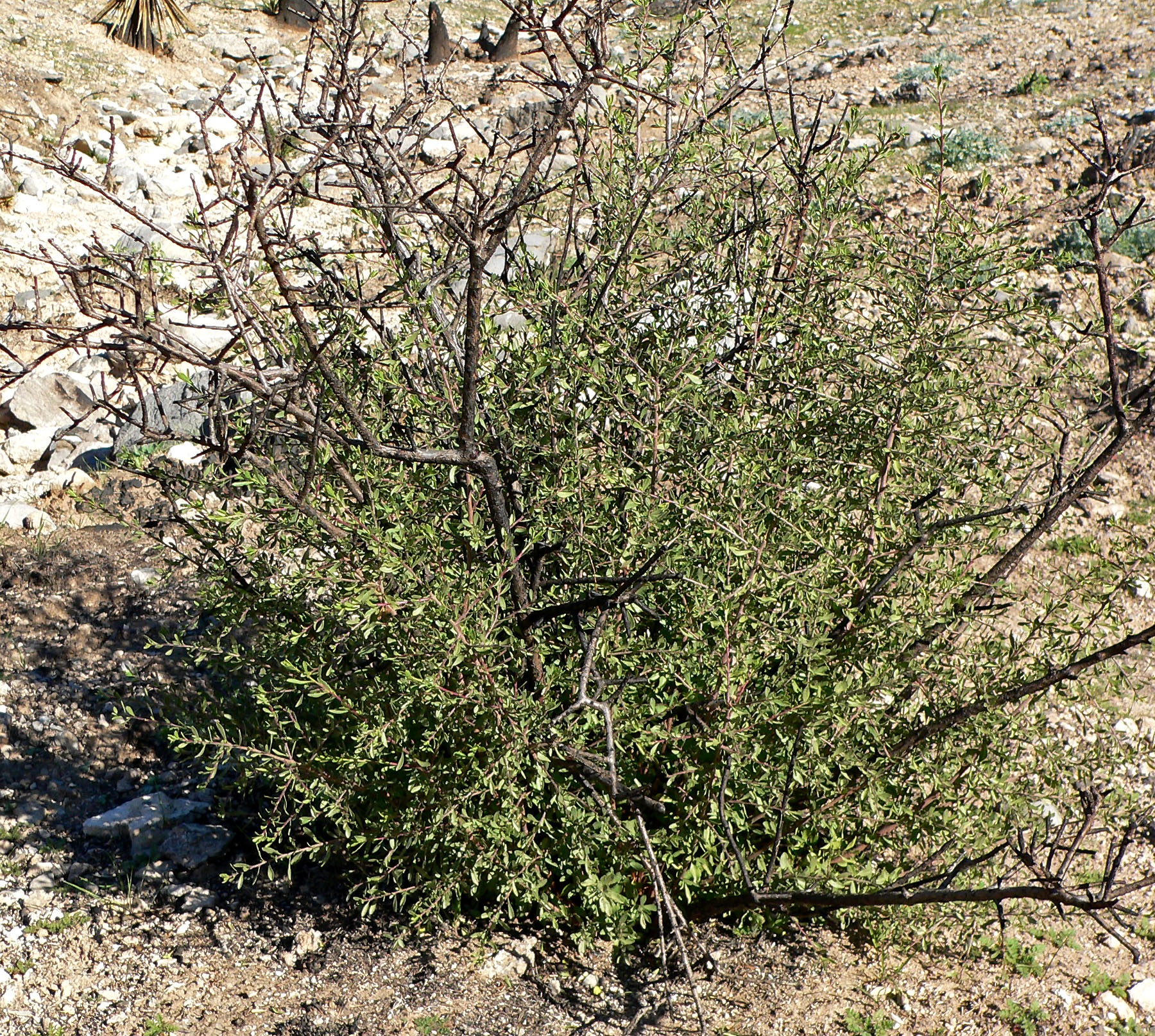 Prunus fasciculata in Red Rock Canyon, Spring Mountains, southern Nevada, resprouting in area burned by July 2005 fire